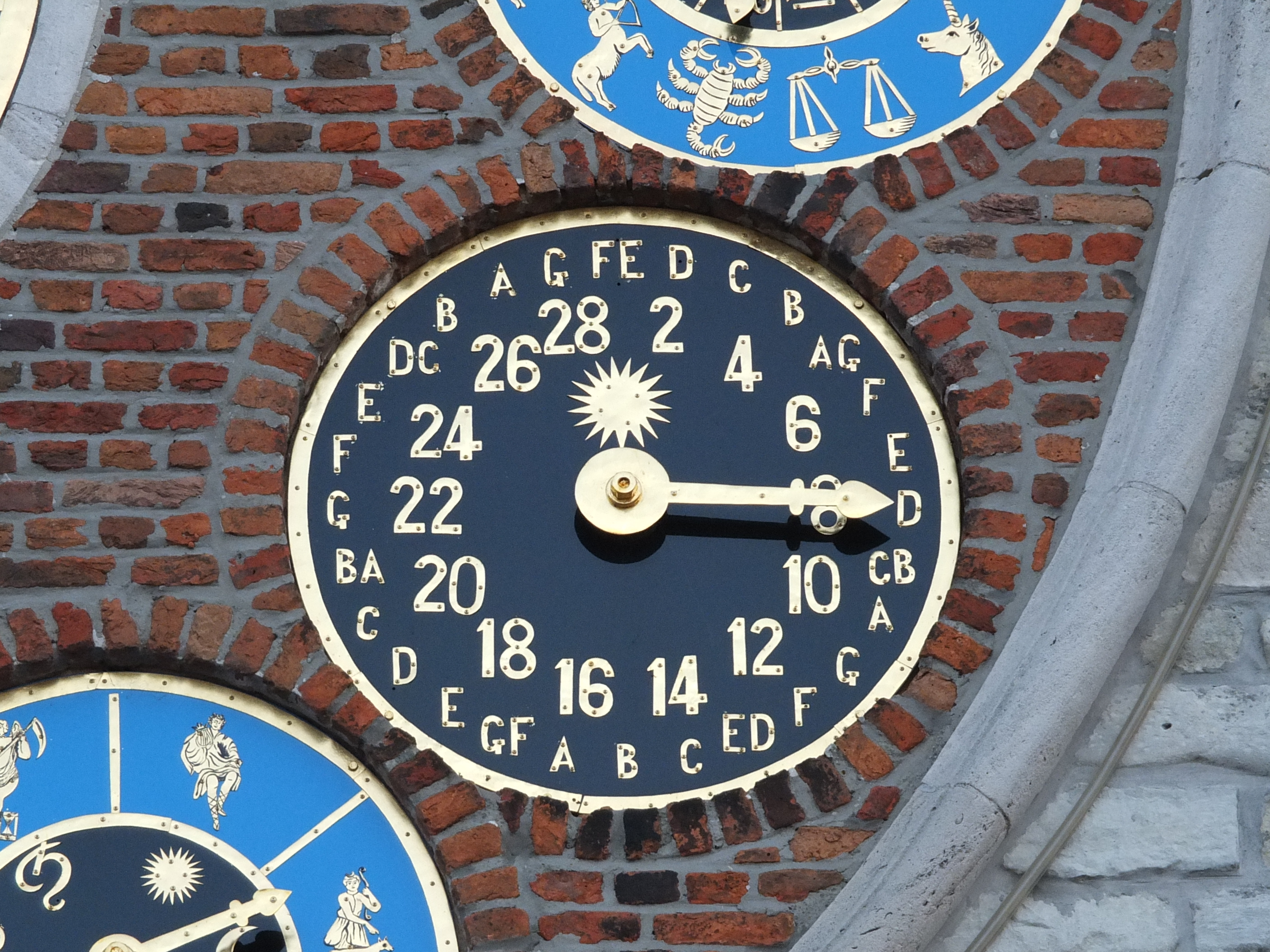 The solar cycle and dominical letter on the Jubilee clock of the Zimmer tower. The Zimmer tower (Dutch: Zimmertoren) is a tower in Lier, Belgium, also known as the Cornelius tower, that was originally a keep of Lier's fourteenth century city fortifications. In 1930, astronomer and clockmaker Louis Zimmer (1888–1970) built the Jubilee (or Centenary) Clock, which is displayed on the front of the tower.